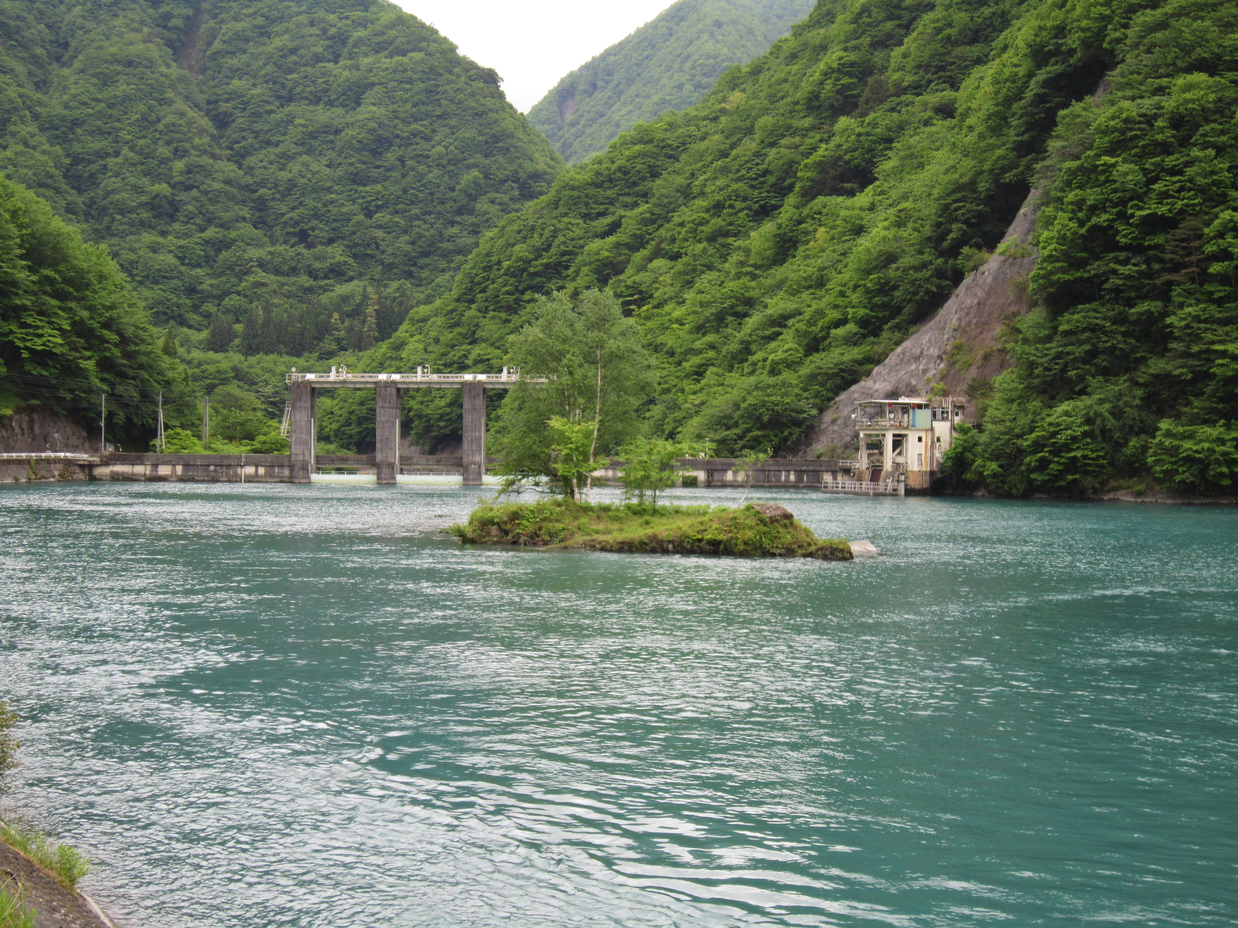 Nishiyama Dam.